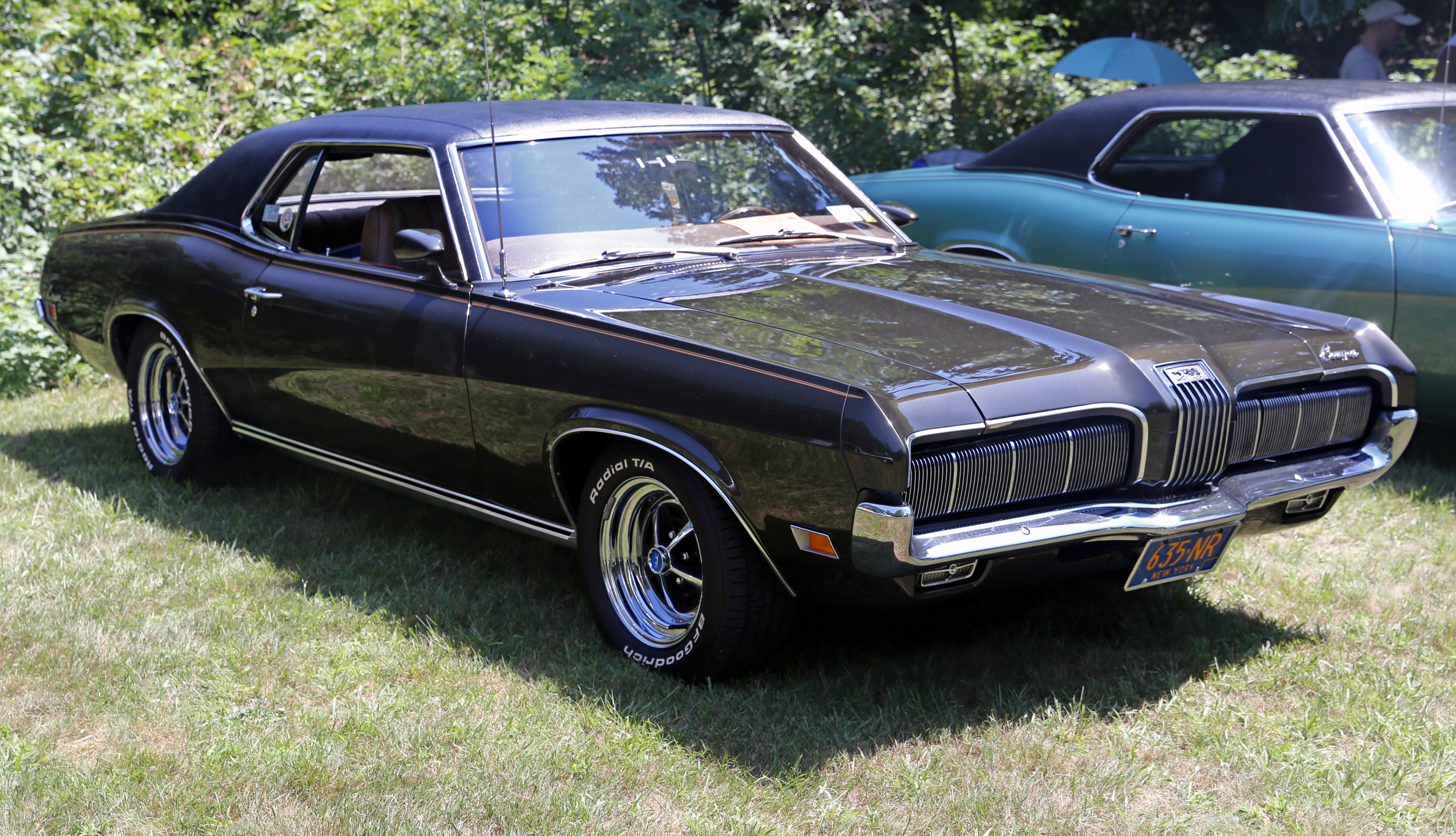 Front right view of a 1970 Mercury Cougar Hardtop coupé, assembled in Dearborn, MI, and fitted with the standard 250hp 351ci-2V V8 engine with 9.5:1 compression. It is unknown whether this is a Cleveland or a Windsor unit.